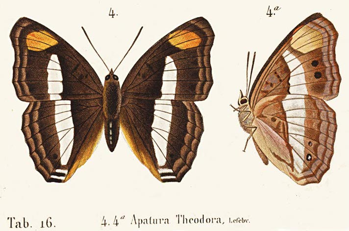 Doxocopa pavon theodora (female, dorsal and ventral) by Pierre Hippolyte Lucas (1857)